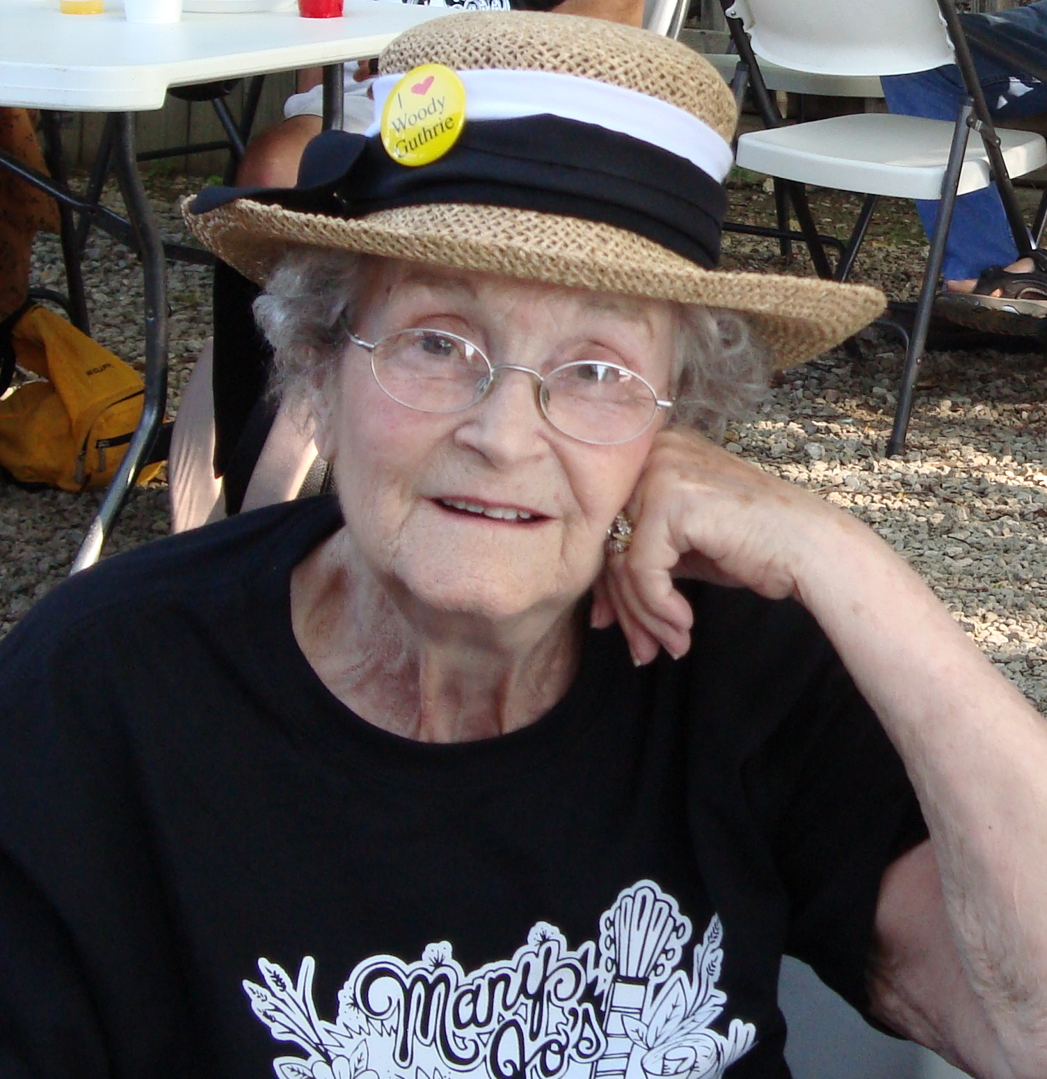 Mary Jo Guthrie Edgmon (Woody Guthrie's youngest sibling) sporting her "I [heart] Woody Guthrie" pin at her "Pancake Breakfast" during the 2008 Woody Guthrie Folk Festival.